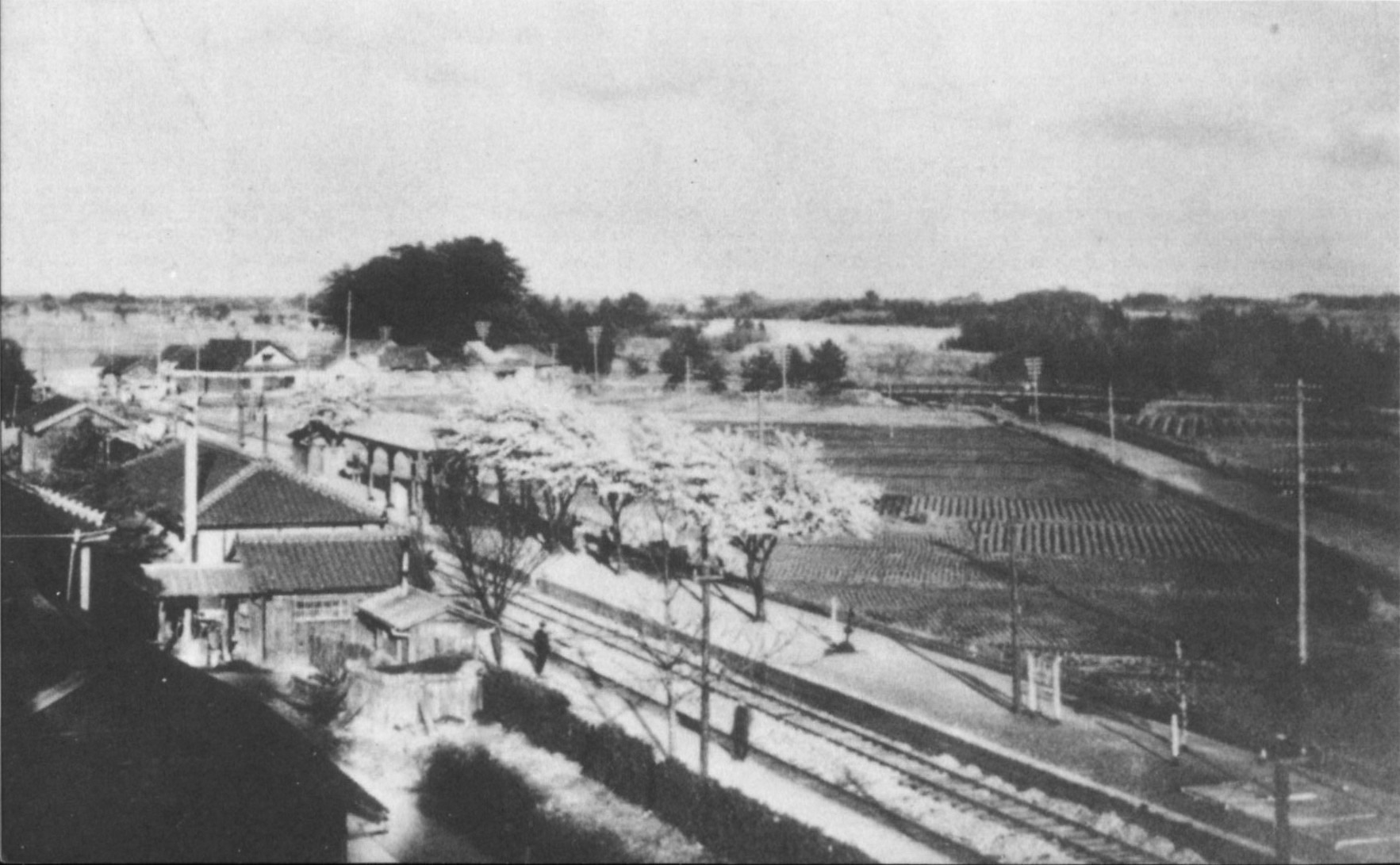 Kasado Station on Kansai Main Line in 1927